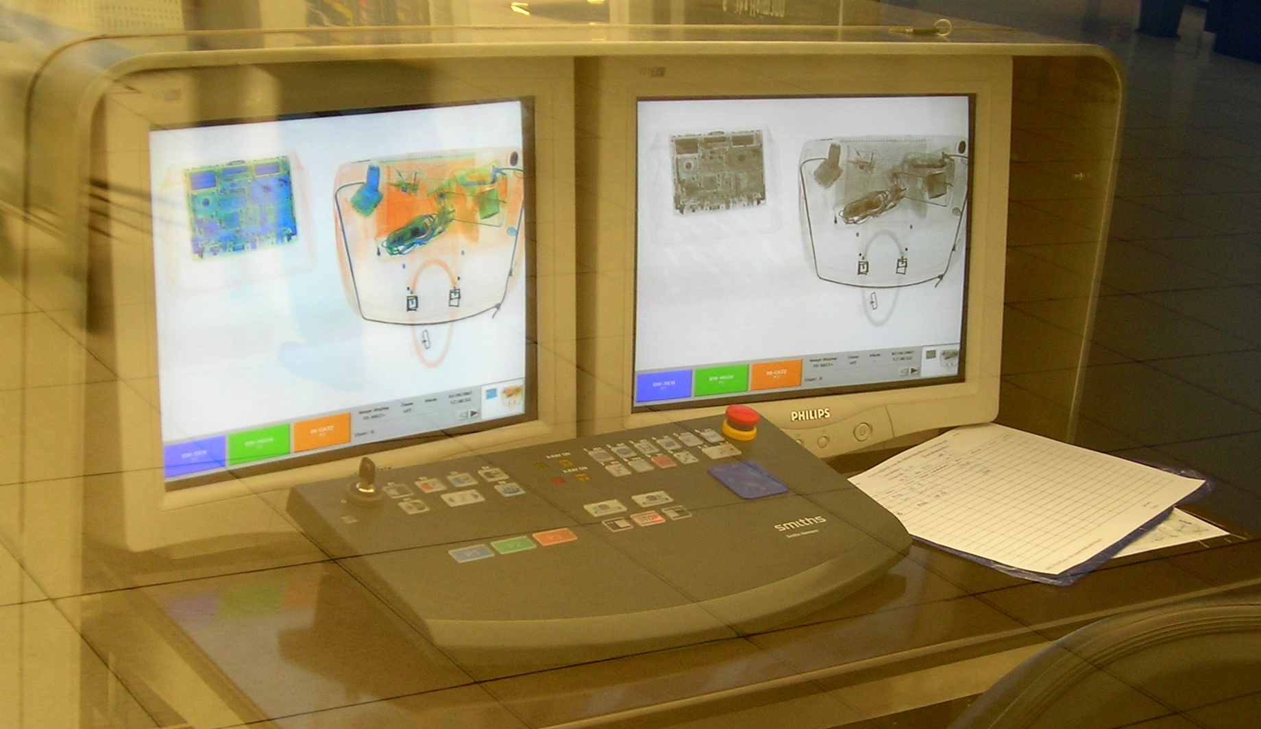 X-ray Luggage screening device at Suvarnabhumi International Airport